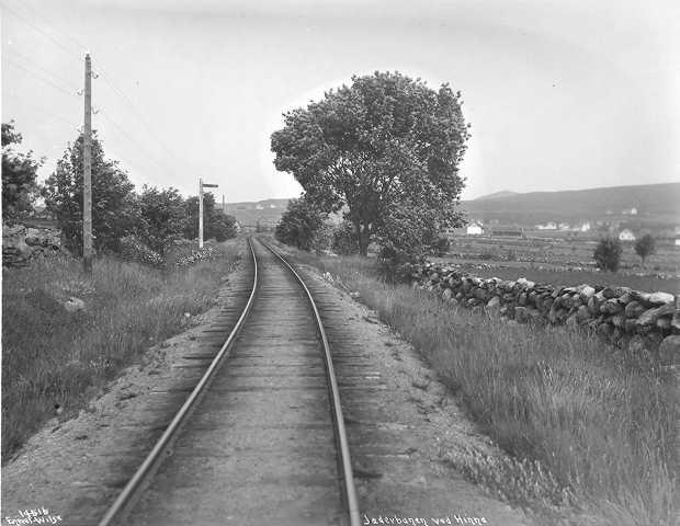 The Jæren Line through Hinna in Stavanger, Norway.